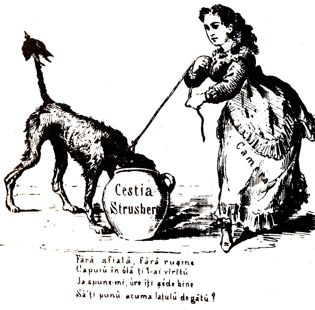 C[h]estia Strousberg ("The Strousberg Question"), cartoon in Ghimpele, the Romanian satirical magazine. It refers to the exposure of German interests in Romania, and more specifically to the contract between industrialist Bethel Henry Strousberg and the Romanian state, on the basis of which were created the Romanian Railways. Germany is portrayed as a hound with its head down the pot marked Cestia Strousberg, a Pickelhaube on the tip of its tail. The young woman who has trapped it by the neck is Camera ("The Chamber [of Deputies]"). The legend, in antiquated Romanian, reads: Fâră sfială, fâră ruşine Capulŭ în ólă ţi 'l-ai vîrîtŭ Ja spune-mi, òre îţi şéde bine Să'ţi punŭ acuma laţulŭ de gátu? (Without timidity, without shame, You shoved your head into the pot Tell me now, does it suit you To have my leash around your neck?)